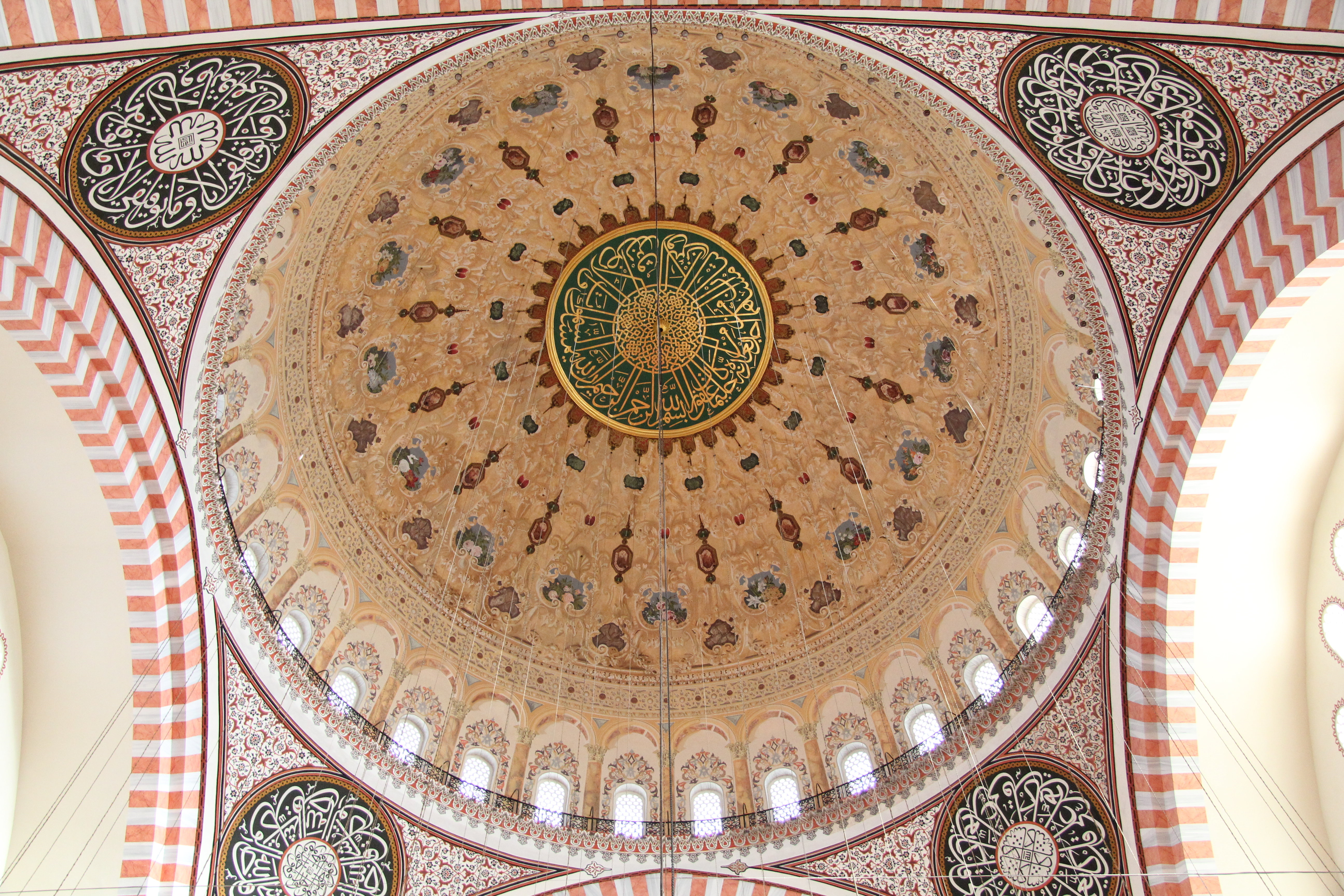 Süleymaniye Mosque, Istanbul, Turkey, main dome